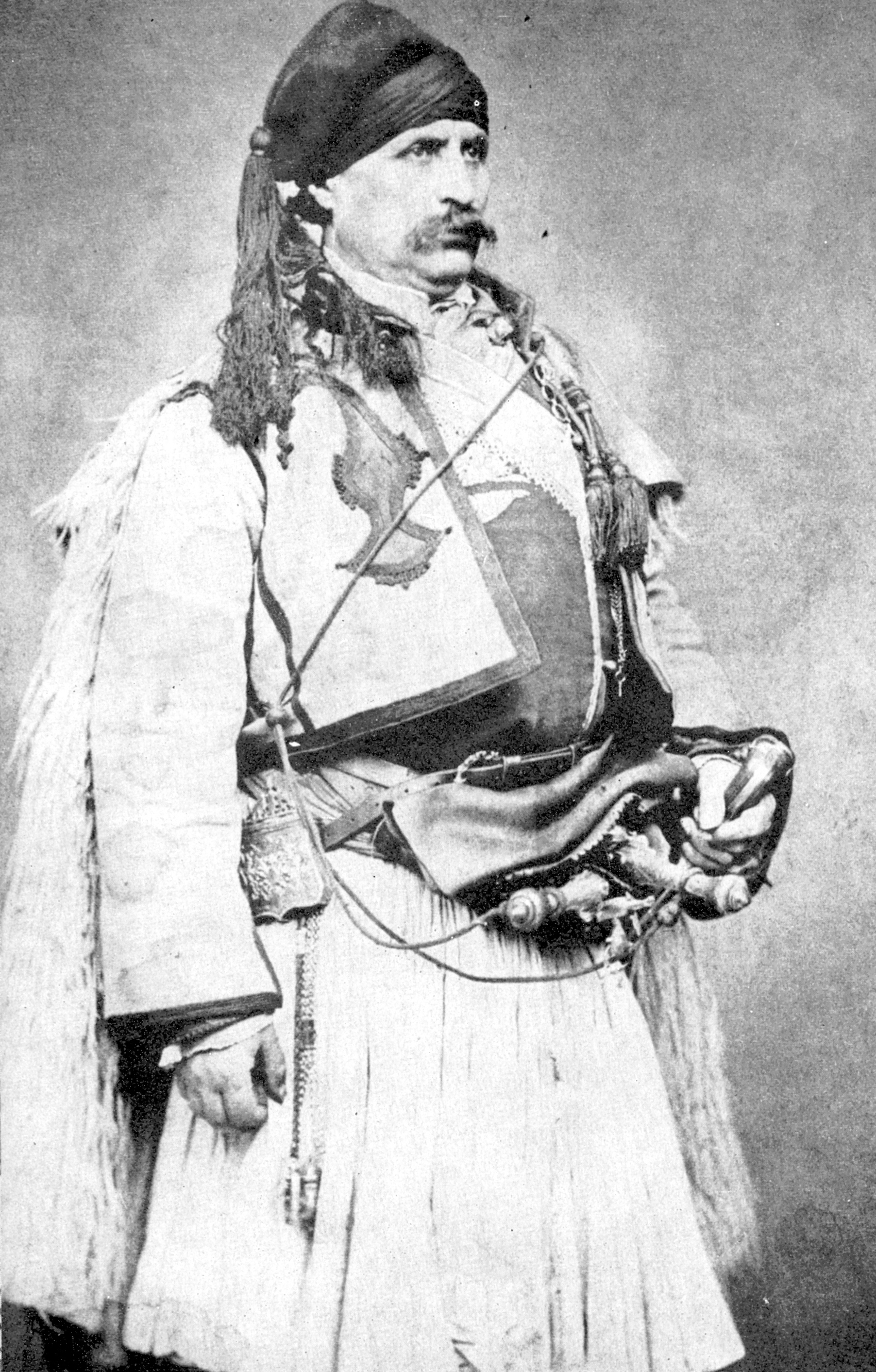 Ilyo Voivoda. Photo by Anastas Karastoyanov, Belgrad, 1867